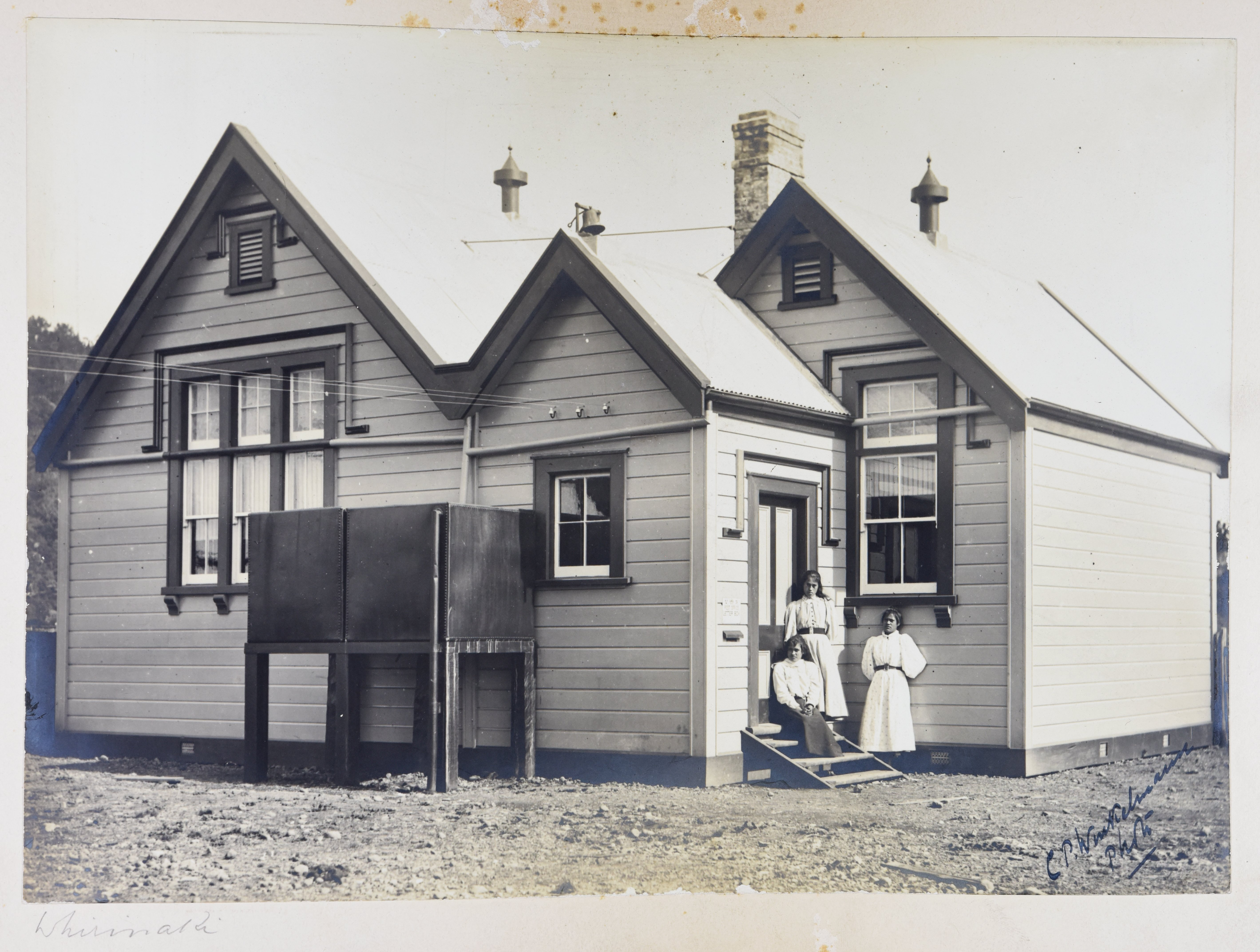 School for the education of Māori students in Whirinaki, Southern Hokianga, New Zealand. Photo taken between 1900 and 1936.